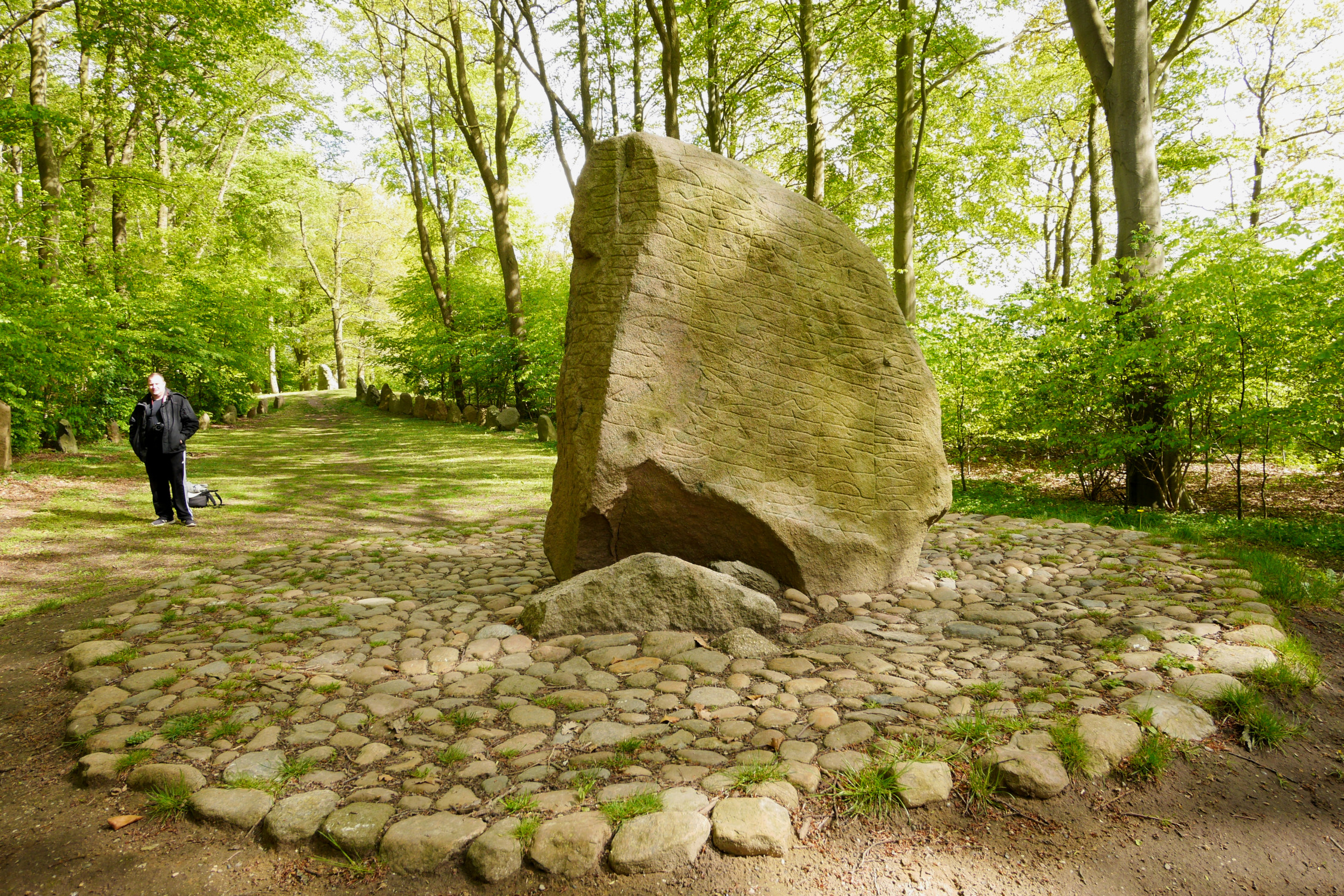 This is the longest runic inscription ever found in Denmark.